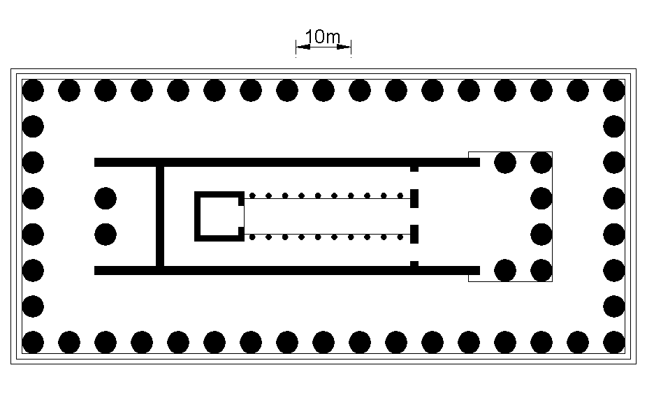 Selinunte. Plan of temple G.